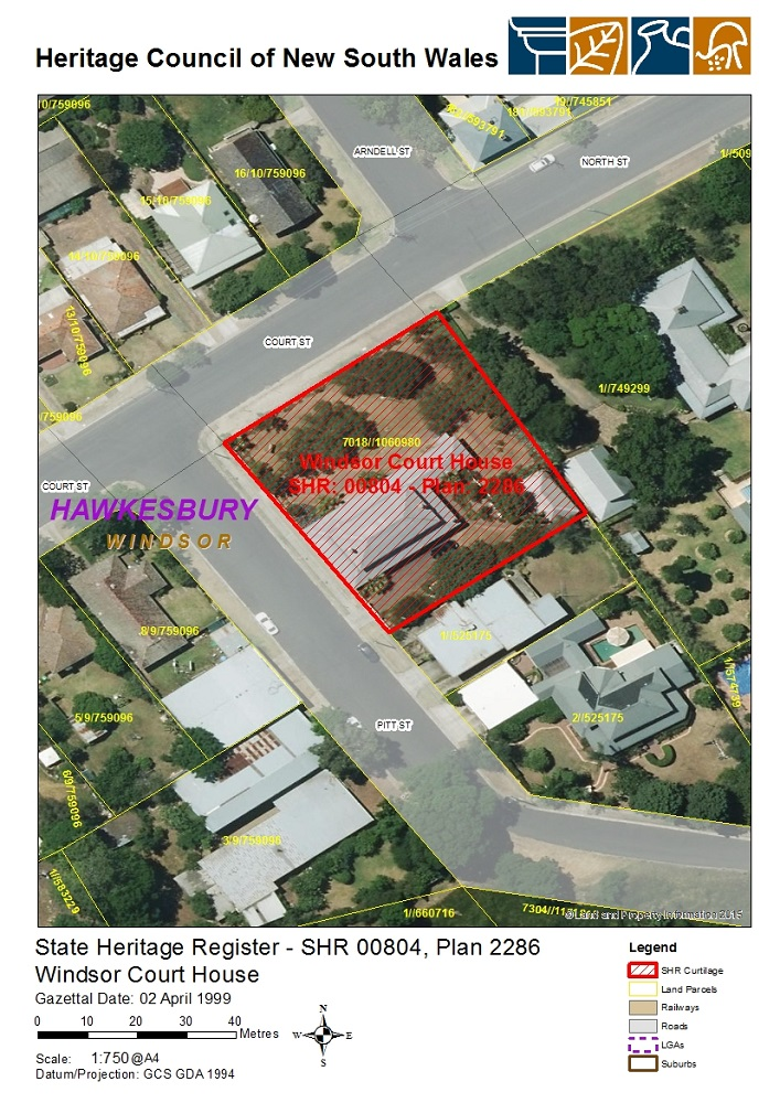 Windsor Court House: SHR Plan No 2286